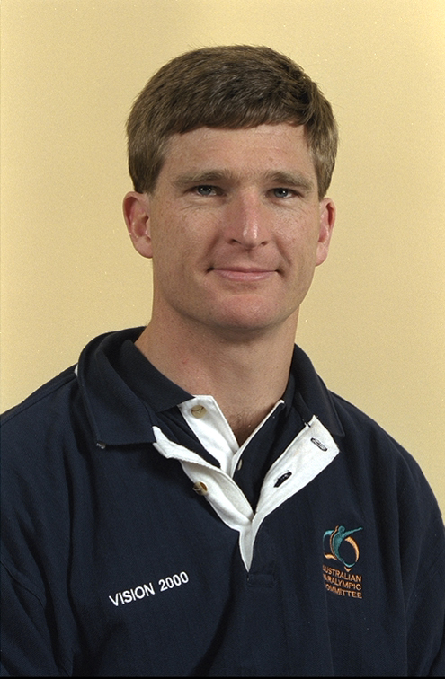 Portrait of Australian athletics competitor Roy Daniell, 2000 Australian Paralympic Team athlete